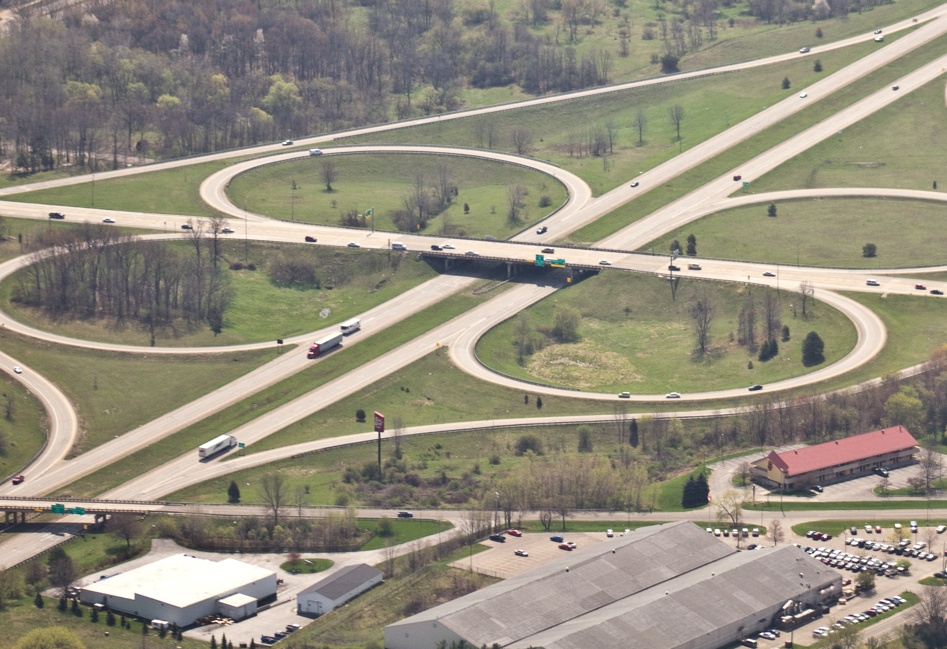 Another aerial shot from my lunch time in the air. I like the isometric view of the land you get when you're flying. I DON'T like the haze and other atmospheric effects. All the shots worth keeping needed a pretty heavy white balance and then a significant boost in contrast/blacks to cut through the drabness. Shooting in RAW only made the correction seem more necessary. For those of you who might actually know this intersection, we're looking south at the underpass of US 131 and at the overpass of Stadium drive.